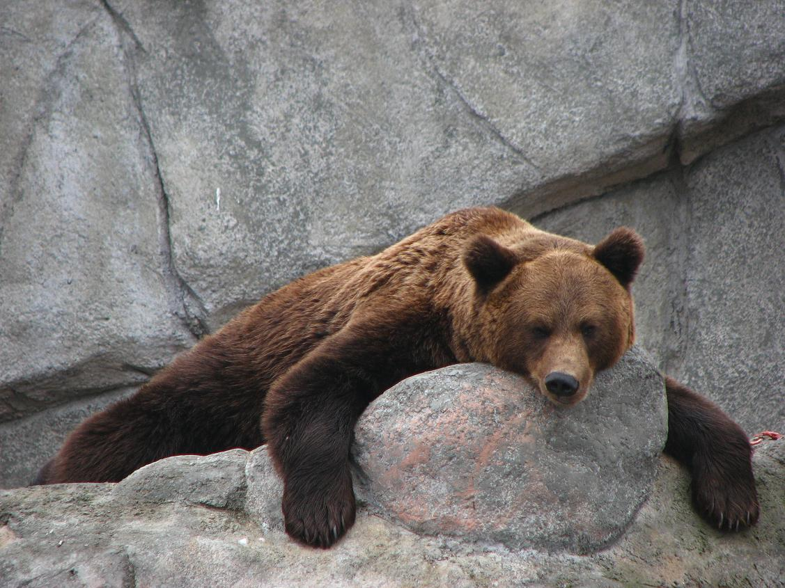 European Brown Bear (Ursus arctos) at Korkeasaari (Högholmen) Zoo in Helsinki